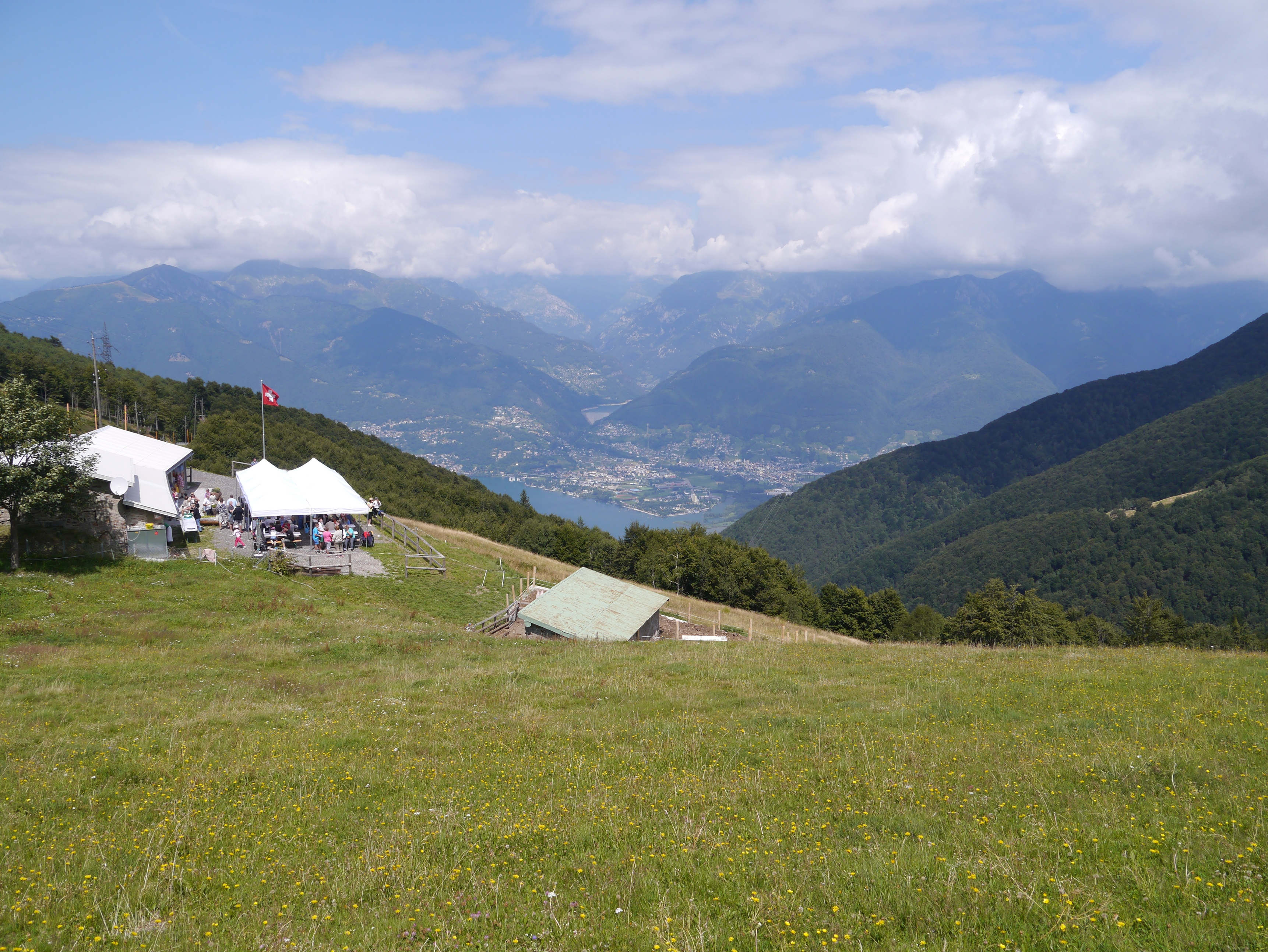 Top of Alpe di Neggia, Canton of Ticino, Switzerland